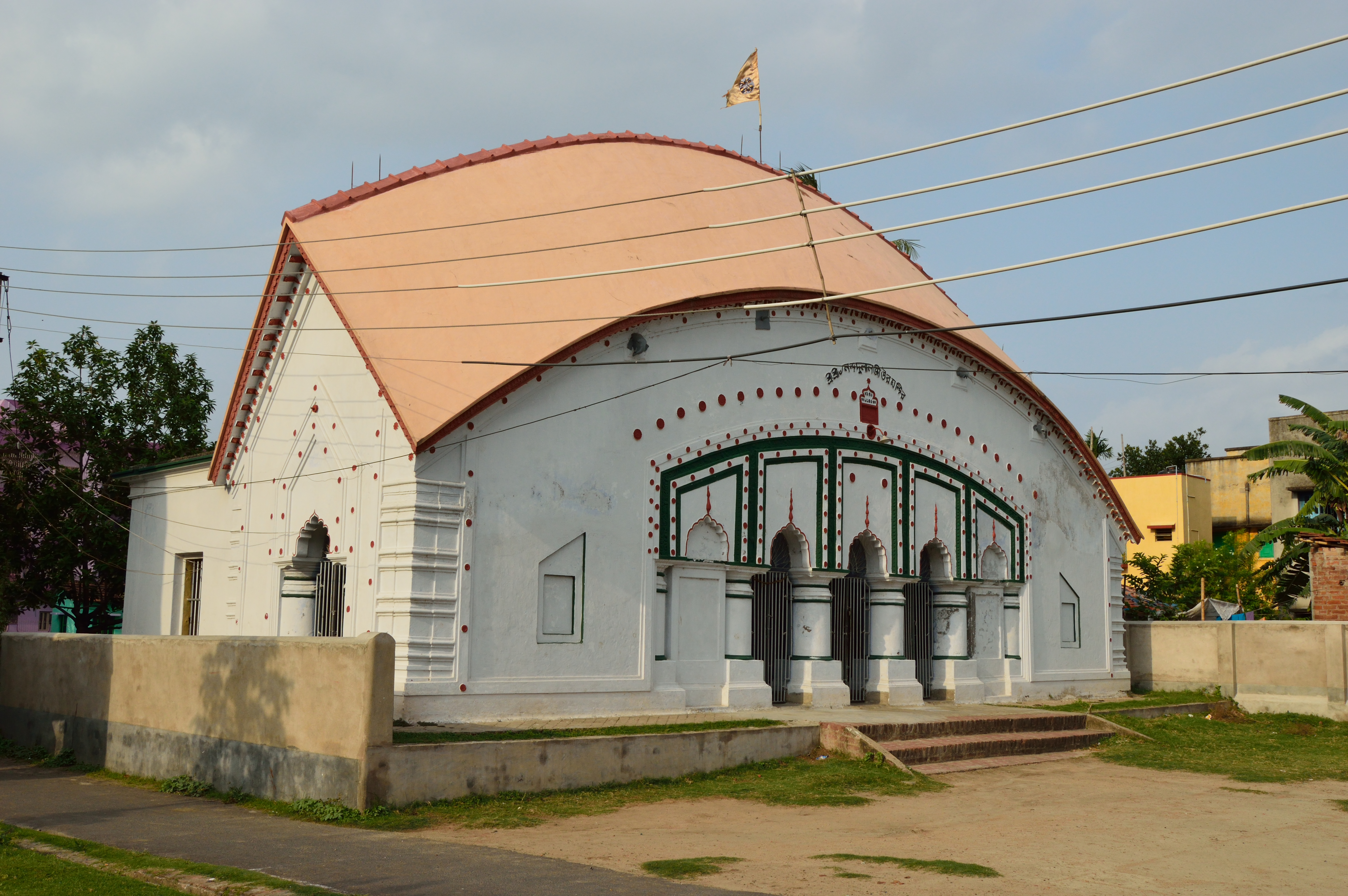 The Nandadulal Jiu Mandir, Chandan Nagar, Hooghly, West Bengal, India.